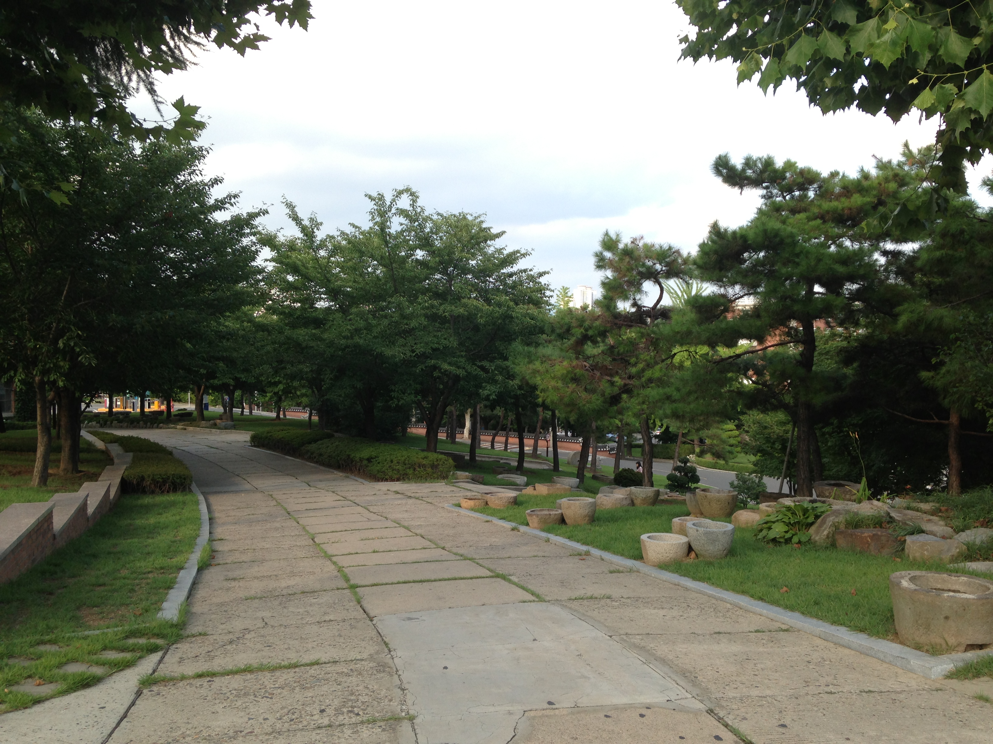 계명대학교 캠퍼스